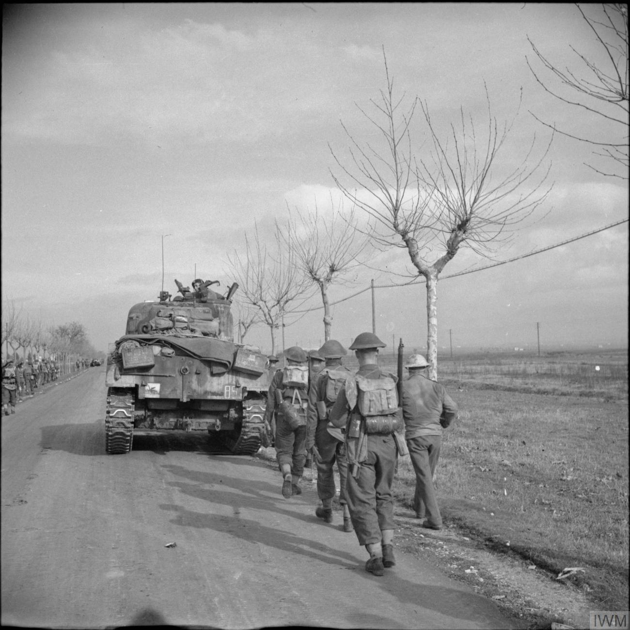 The British Army in Italy 1944 A Sherman tank of 46th Royal Tank Regiment supporting Irish Guardsmen north of Anzio, 25 January 1944.